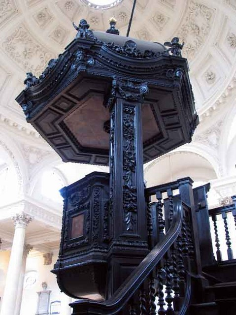 St Stephen Walbrook, Walbrook, City of London EC4N 8BN - Pulpit, near to London, City of London, Great Britain.